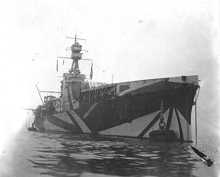 HMS Furious (British Aircraft Carrier, 1917-1948) Photographed in 1918, moored to a bouy. U.S. Naval Historical Center Photograph.